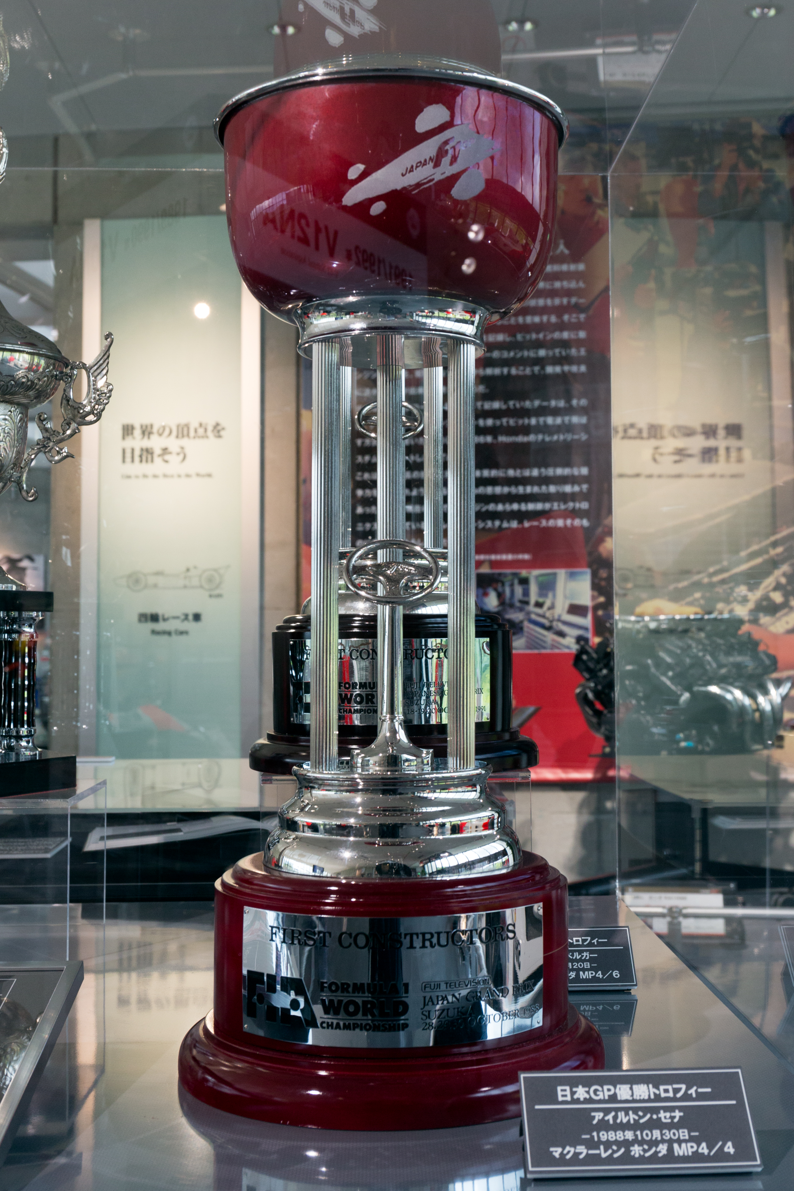 1988 Japanese Grand Prix winning constructor's trophy (for McLaren)